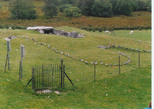 Capel Garmon Burial Chamber